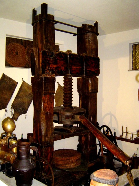 Сarpet-oak vertical press